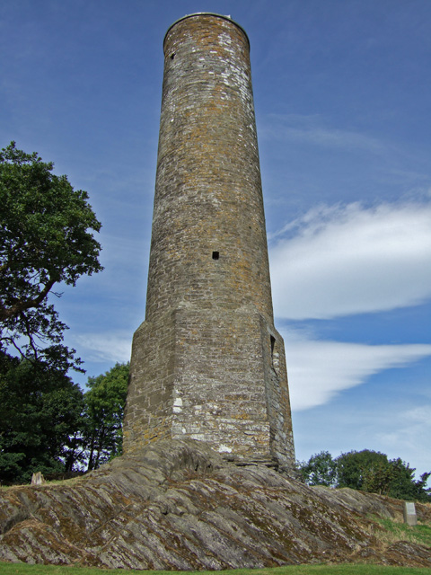 Kinneigh Round Tower Kinneigh round tower's unique hexagonal base can be seen in this shot.